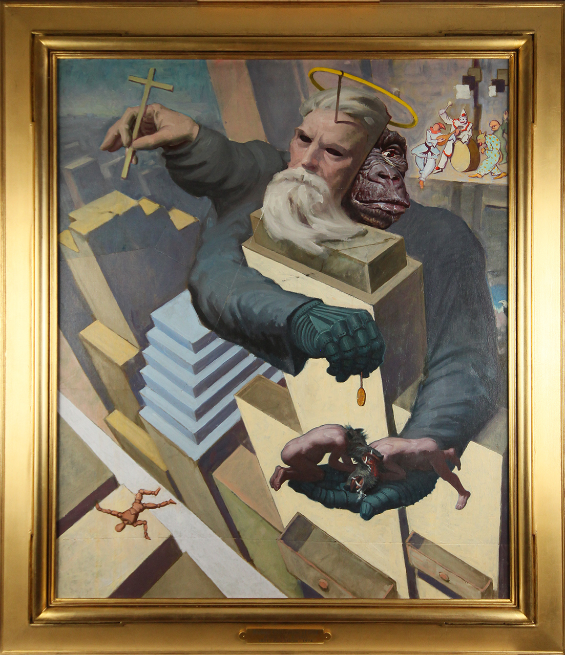 Pico Miran original